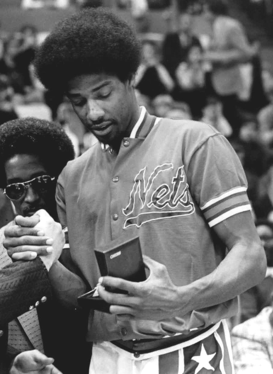 Professional basketball player Julius Erving